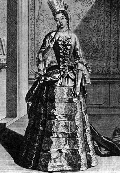 Madame de Ventadour